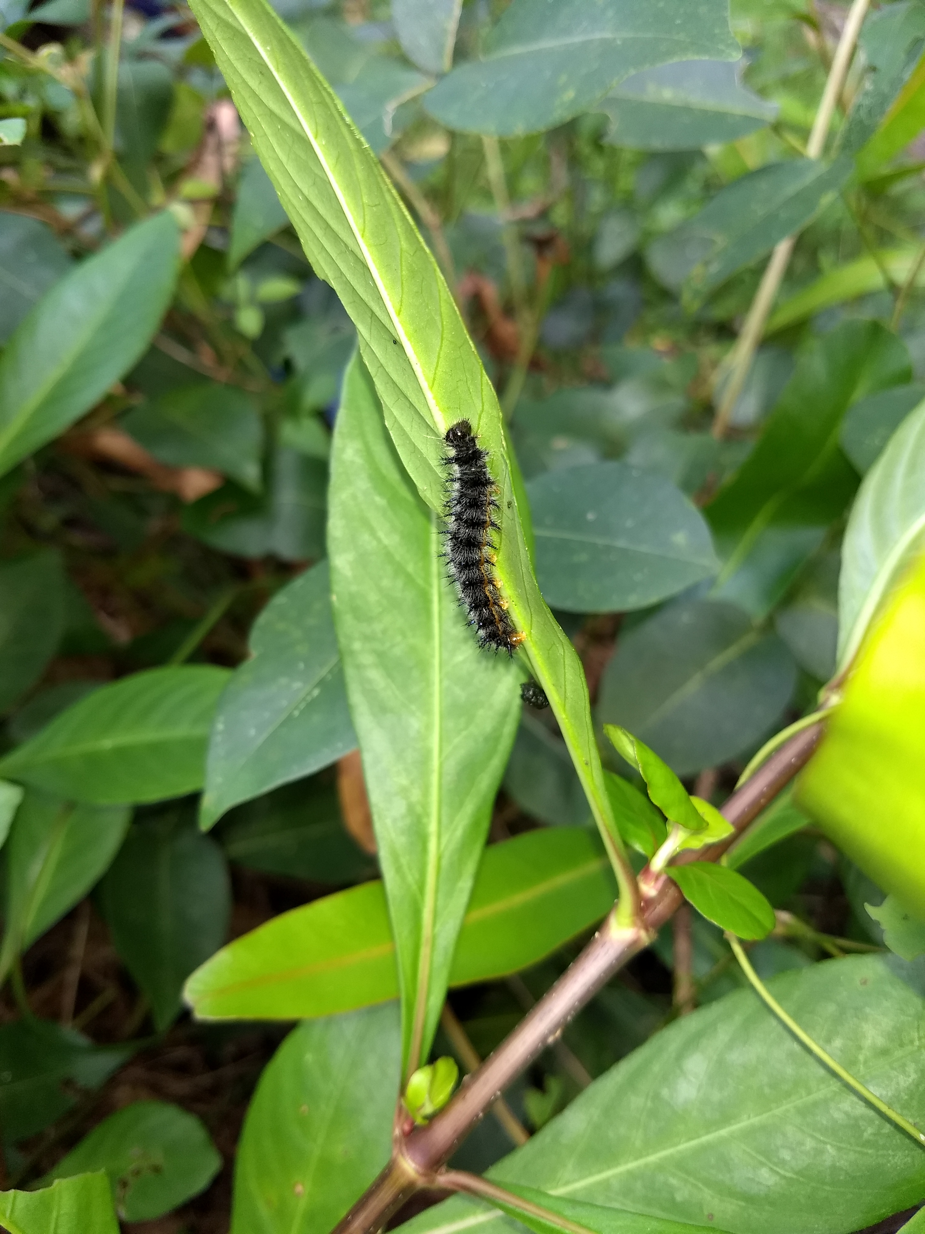 Grey Pansy (Junonia atlites), വയൽക്കോത. From Ezhupunna